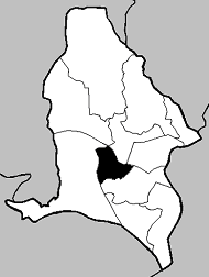 Location of Reboleira parish in Amadora municipality. Map created by Brian Boru in December 2005.